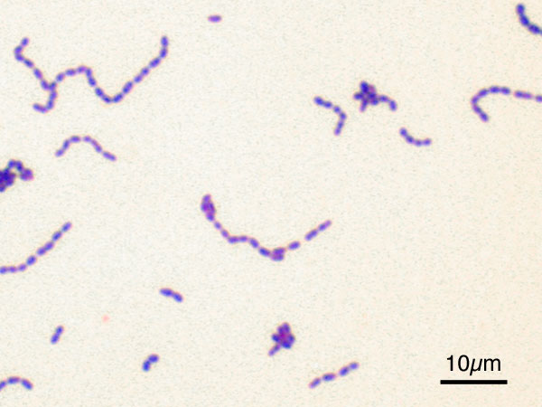 microscopic image of Streptococcus mutans ATCC 25175. Gram staining, magnification:1,000